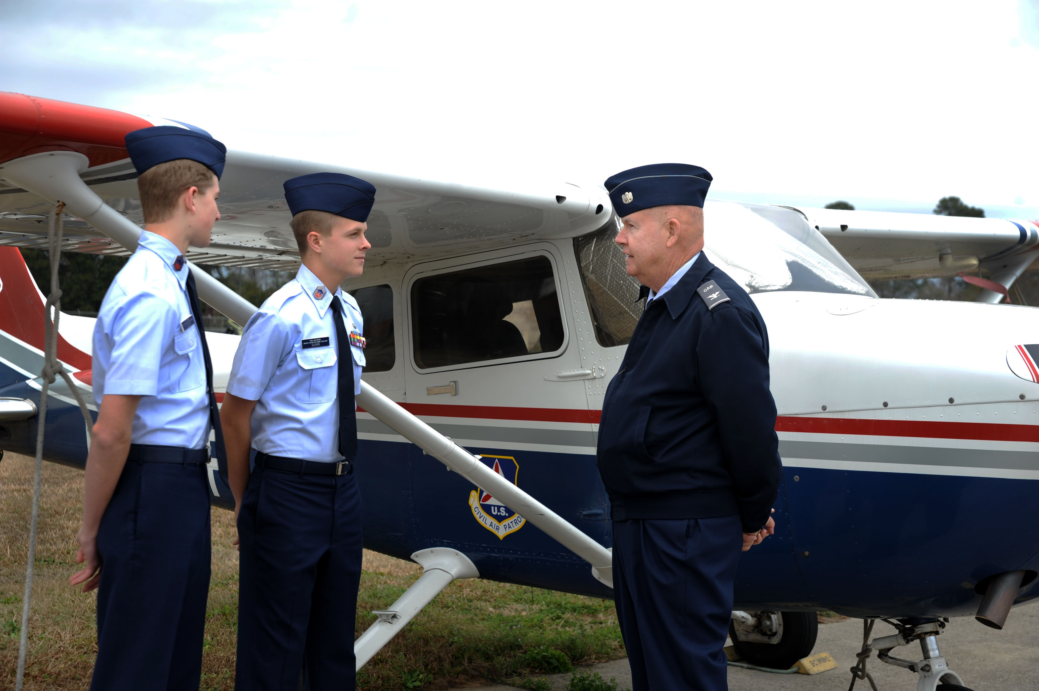 Civil Air Patrol Col. Bob Townsend speaks with Cadet Chief Master Sgt. Alexander Durr and Cadet Chief Master Sgt. Tyler Hoover at the Coastal Charleston Composite Squadron on Joint Base Charleston, S.C., on Feb. 6, 2012. The Civil Air Patrol has one of the largest fleets of single-engine aircraft in the world, with more than 550 aircraft nationwide. Townsend is the Deputy Commander for Cadets and has been a member of the CAP since 1964. Durr and Hoover have been members of the CAP since 2010.